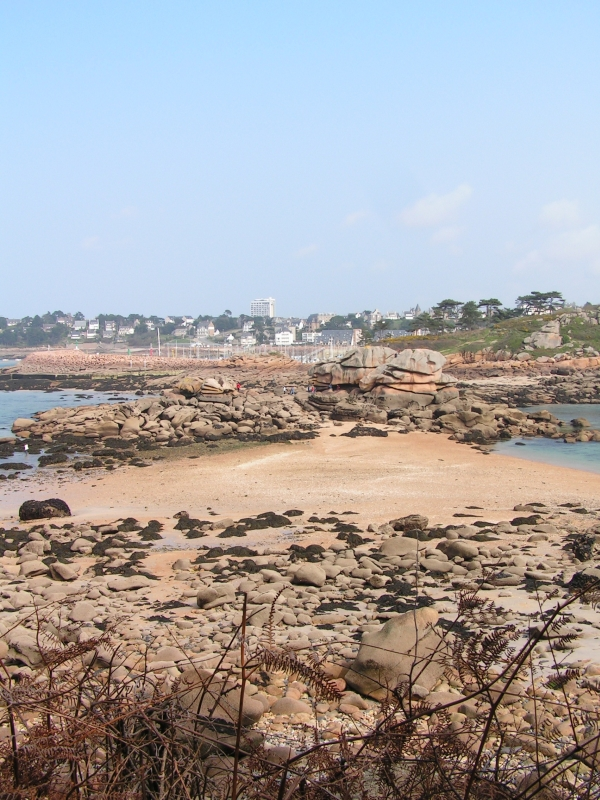 The land bridge between mainland France and Milliau Island at low tide. The times of the tides are posted at the port, and one must pay attention to them so as to avoid being stuck on the island.